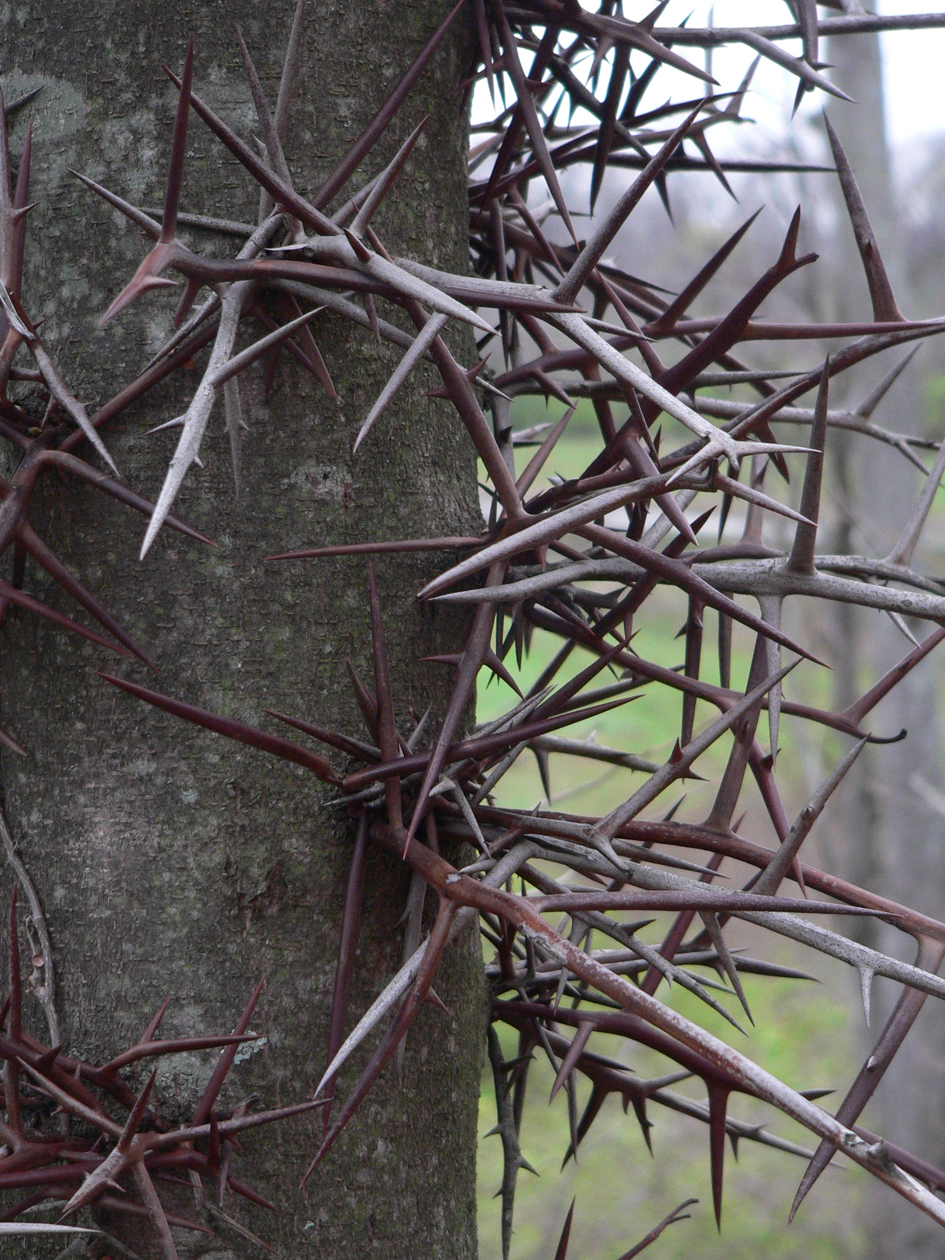 Thorns of the honey locust tree in Cincinnati, Ohio.